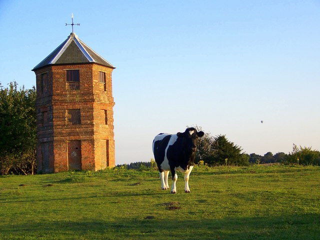 Guarding the Pepperbox, near to West Grimstead, Wiltshire, Great Britain. The Pepperbox, during the late 18th and early 19th century was the haunt of highwaymen, who waited there to rob coaches after they had climbed the hill and the horses tired.